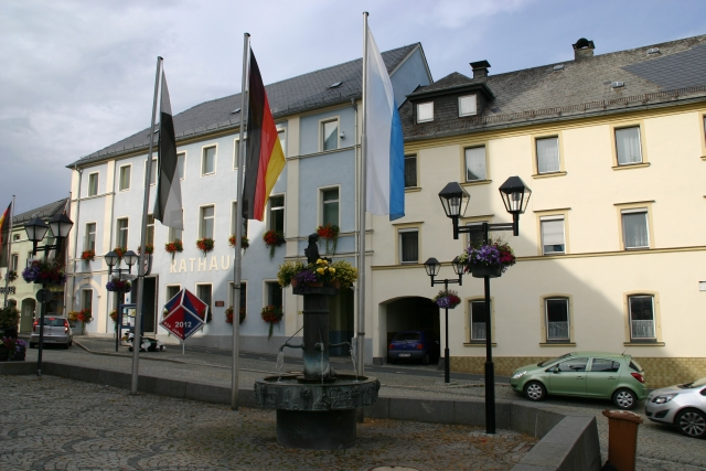 Rathaus Naila